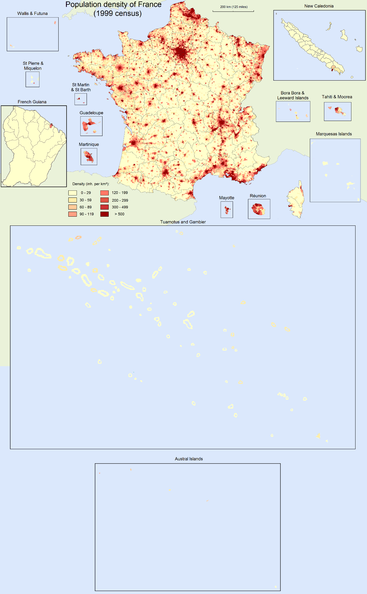 Population density map of France (40% of original). For the original (more detailed) version of the map, see: France_population_density.png. Density is as of 1999 census for Metropolitan France, Réunion, French Guiana, Martinique, Guadeloupe, St Martin & St Barth, and St Pierre & Miquelon. Density is as of 2002 census for Mayotte, Tahiti & Moorea, Bora Bora & Leeward Islands, Marquesas Islands, Tuamotus & Gambier, and Austral Islands. Density is as of 2003 census for Wallis & Futuna. Density is as of 2004 census for New Caledonia.